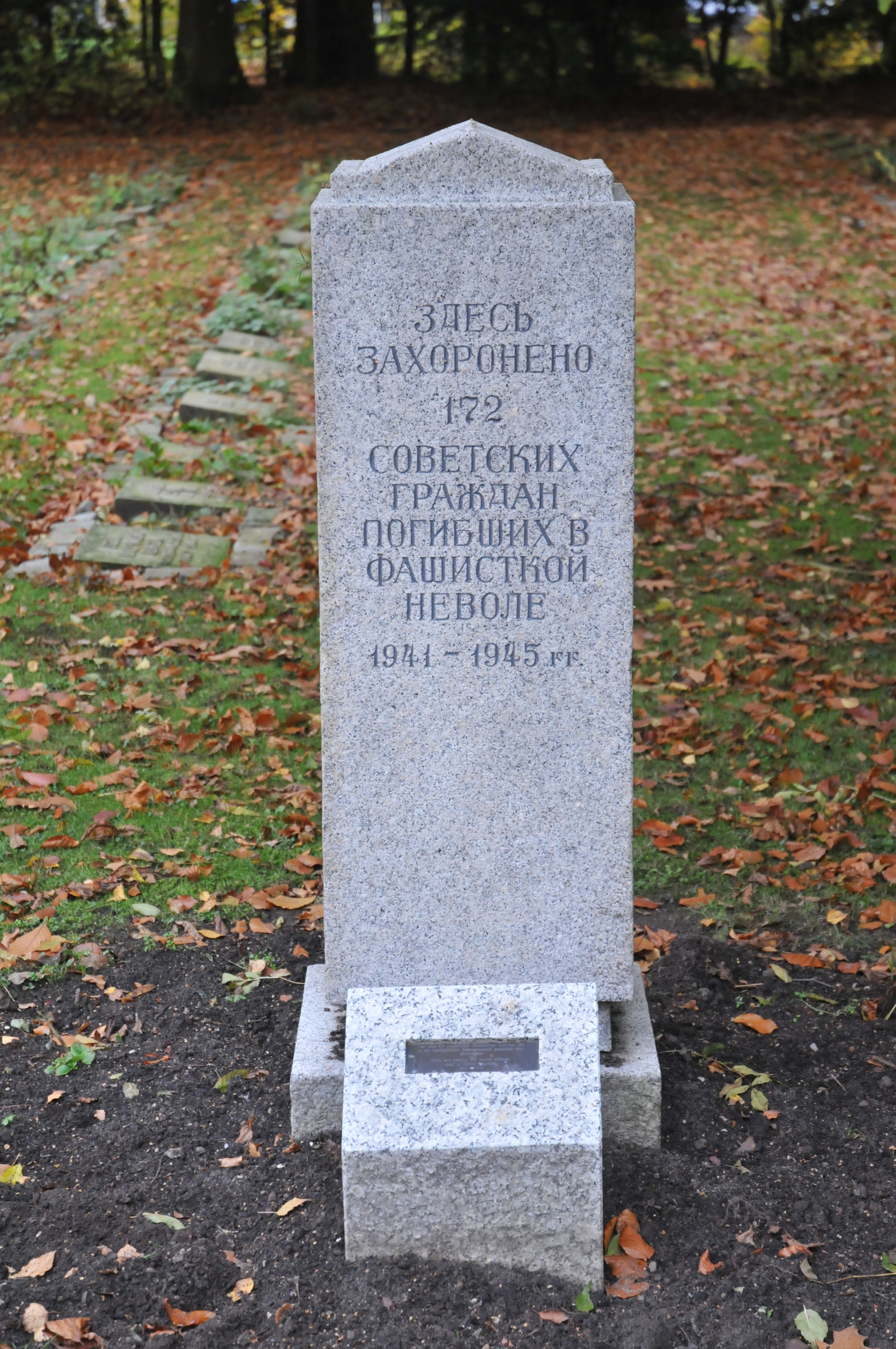 Eichhof cemetery, memorial for 172 Sowjet citizens who died in captivity between 1941 and 1945, Kronshagen, Schleswig-Holstein, Germany